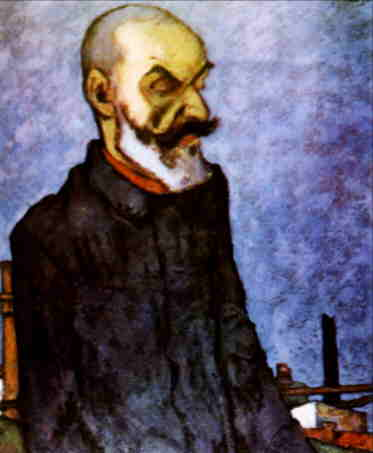 Portrait of writer-politico Gala Galaction. Also known as Omul unei lumi noi ("The Man of a New World"). Oil on cardboard, 0.796 x 0.690.